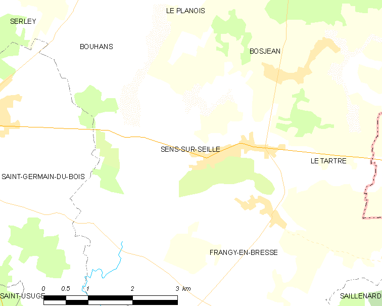 Map of French municipality